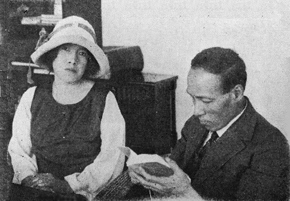 Japanese poet/writer Akiko Yosano (与謝野晶子, 1878–1942) and her husband and also a poet/writer Tekkan Yosano (与謝野鉄幹, 1873–1935)